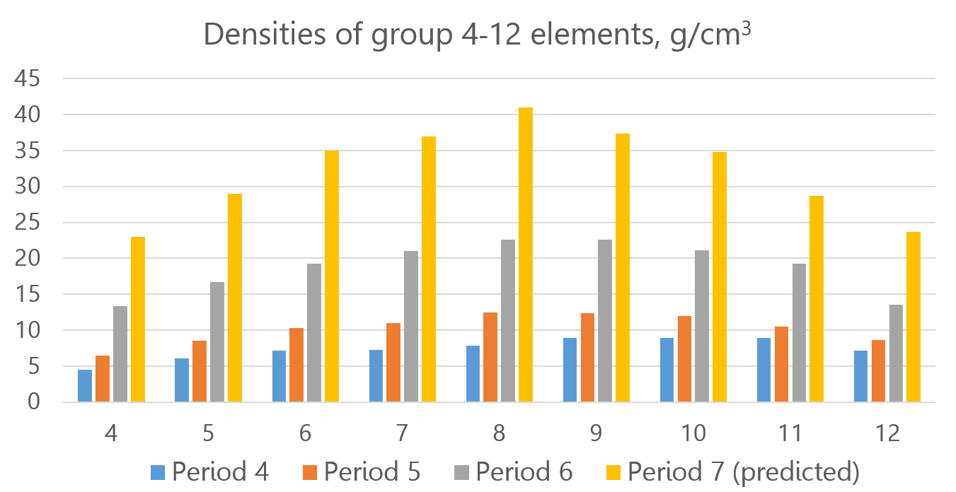 Densities of the group 4-12 elements. Values for periods 4-6 come from Dean 1999; values for period 7 come from Hoffman et al. 2006. Dean 1999: J. A. Dean (ed), Lange's Handbook of Chemistry (15th Edition), McGraw-Hill, 1999; Section 3; Table 3.2 Physical Constants of Inorganic Compounds. Hoffman et al. 2006: Hoffman, D. C.; Lee, D. M.; Pershina, V. (2006). "Transactinides and the future elements". In Morss, L. R.; Edelstein, N. M.; Fuger, J. (eds.). The Chemistry of the Actinide and Transactinide Elements (3rd ed.). Springer Science+Business Media. ISBN 978-1-4020-3555-5.